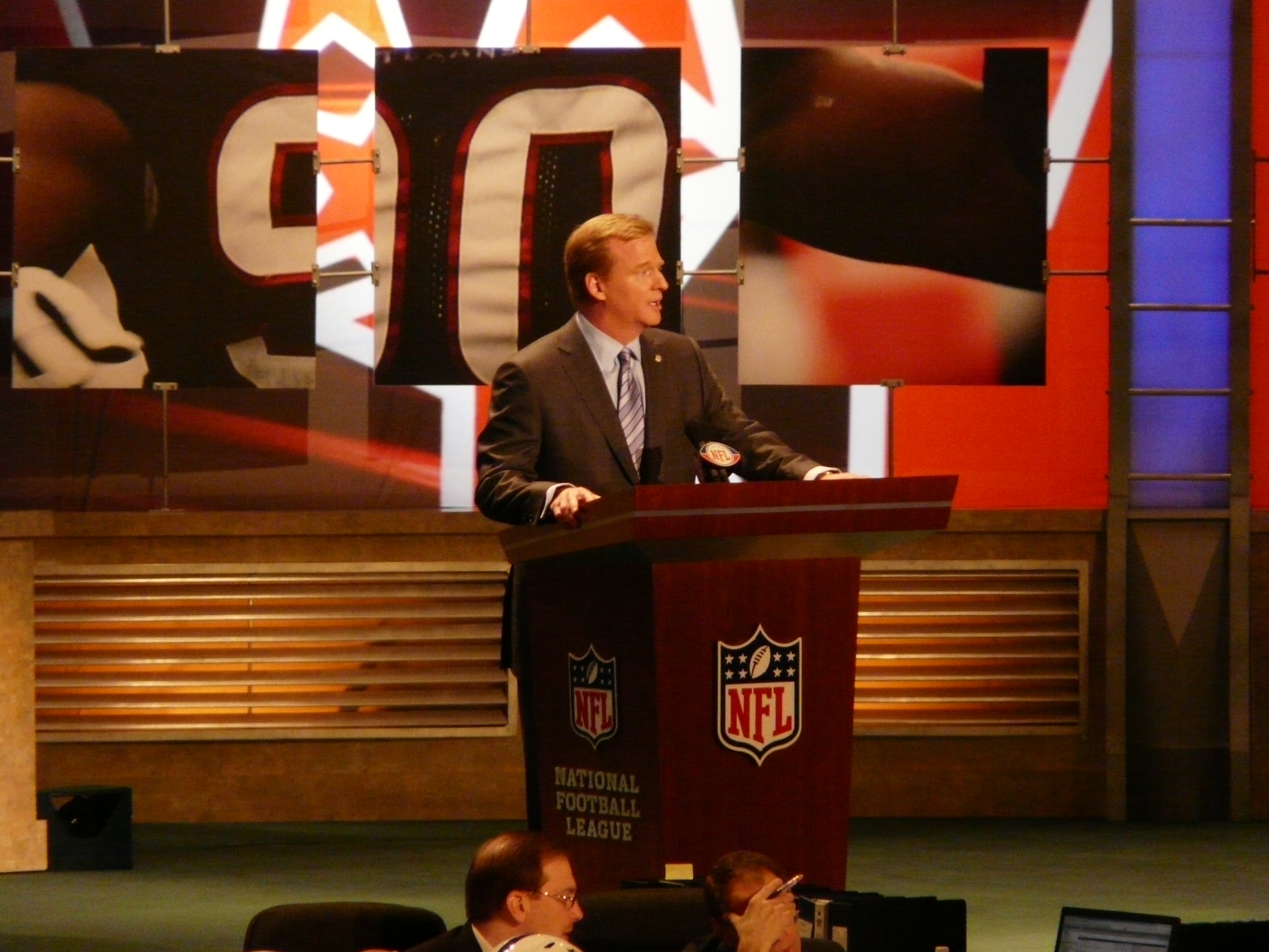 National Football League commissioner Roger Goodell at the podium at the 2009 NFL Draft, at the Radio City Music Hall, New York City.